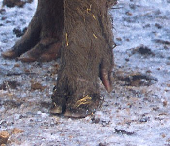 Foot of a domestic pig